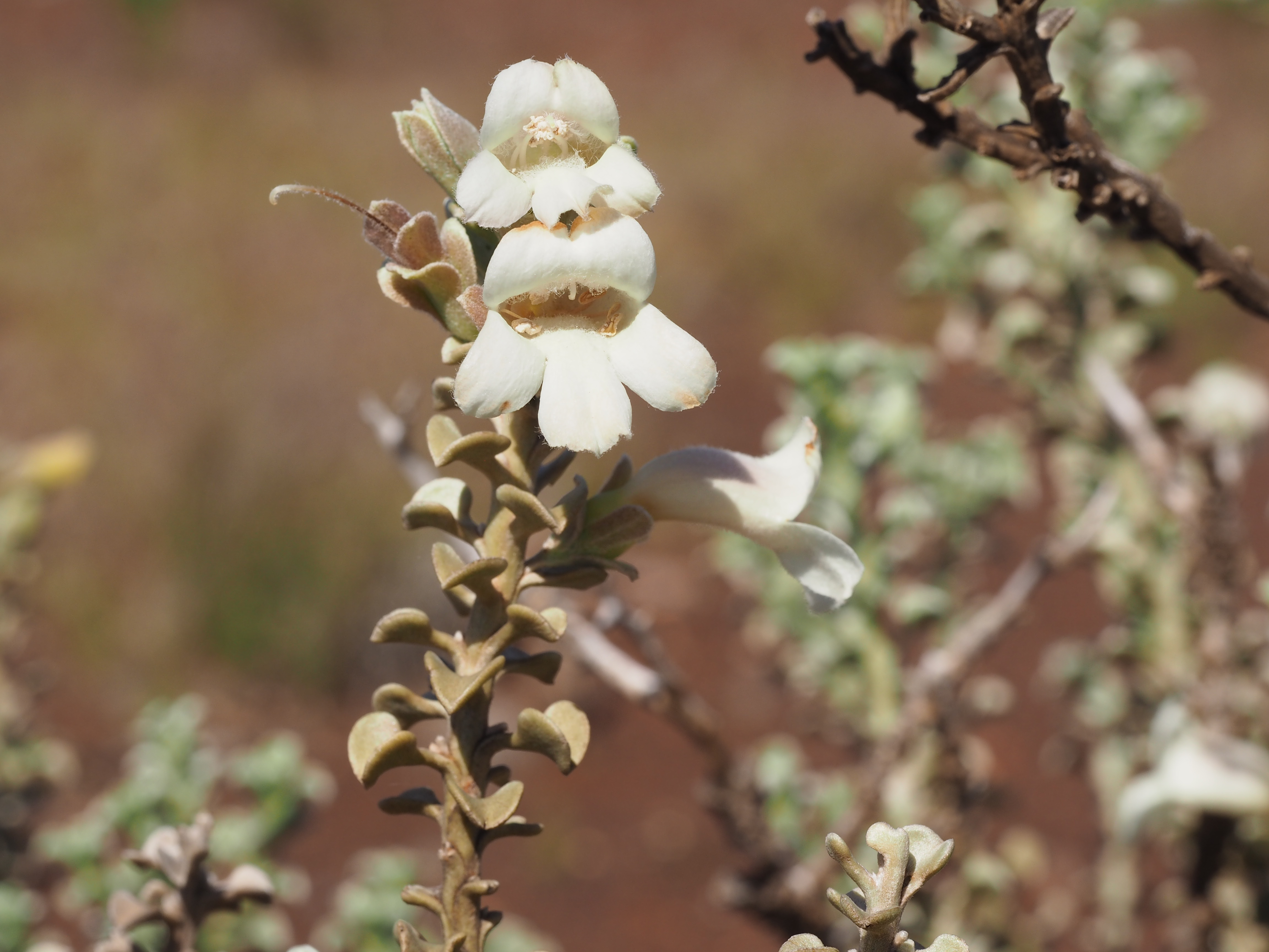 Eremophila rigida growing 43km south of the Capricornia Roadhouse